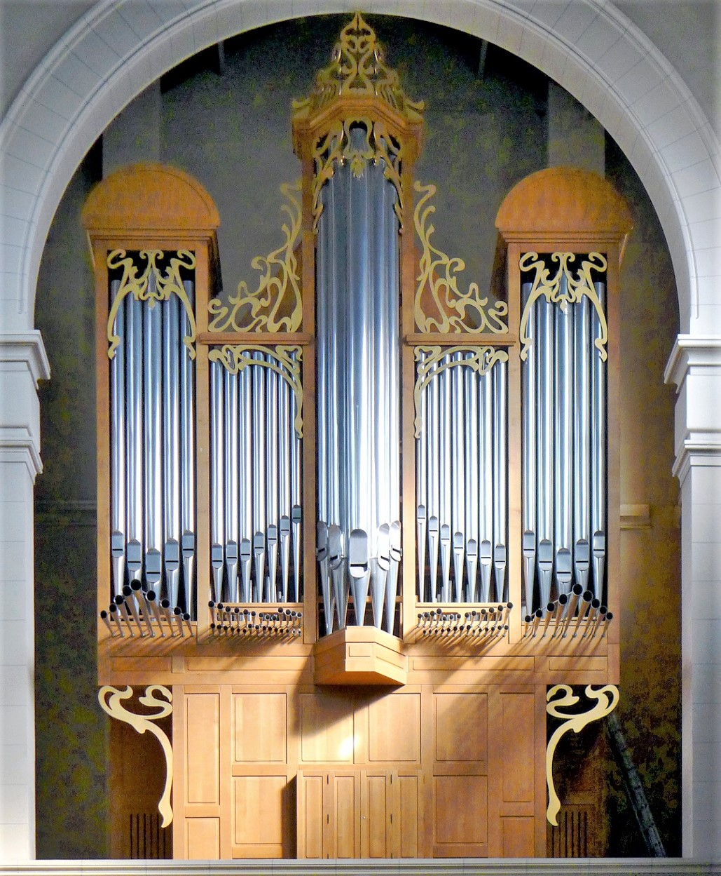 Notre-Dame-du-Travail church - Paris XIV